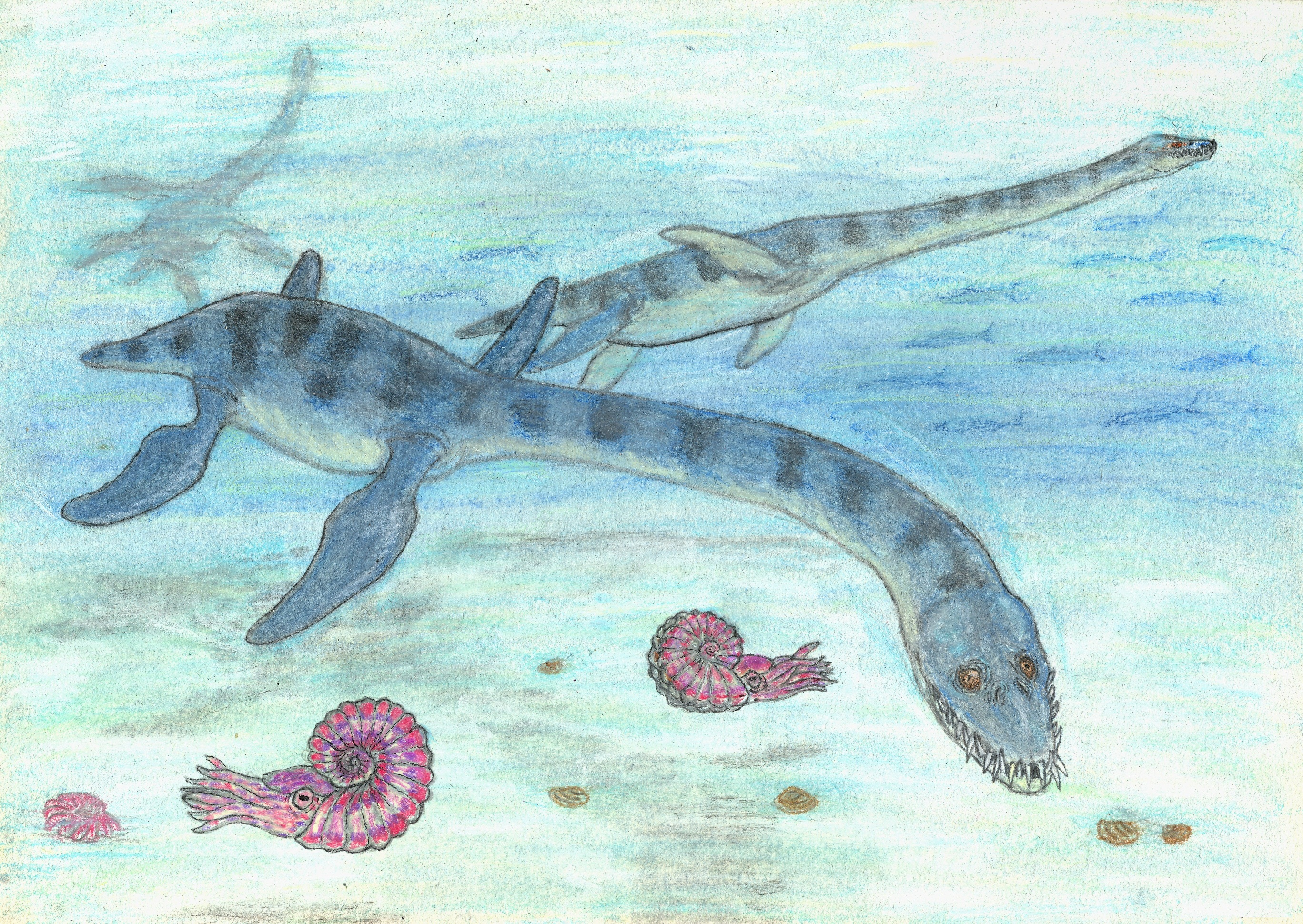 Artistic representation of Callawayasaurus and his environment in the Paleontological Museum of Villa de Leyva, illustrated by Colombian paleontologist Jorge W. Moreno